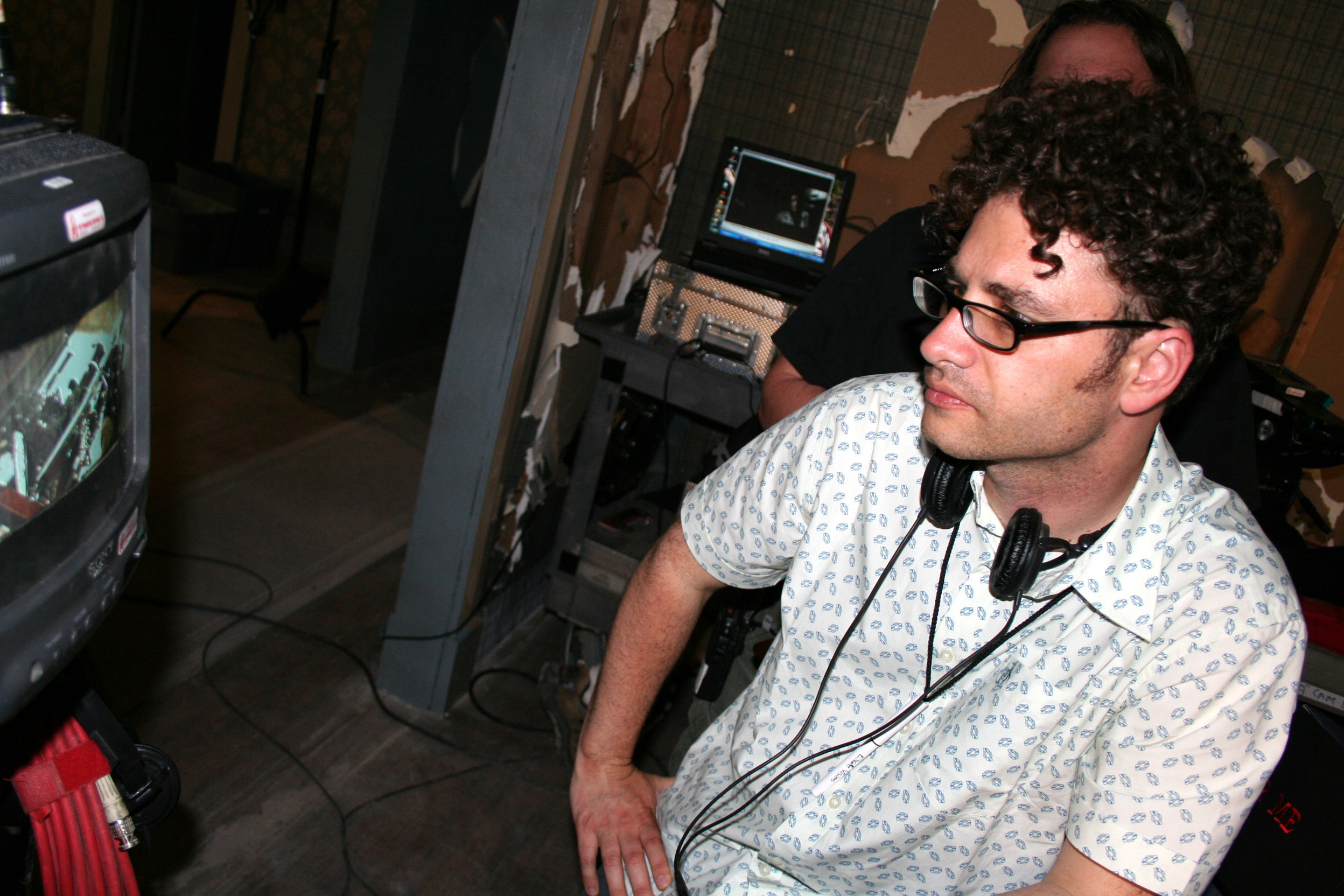 Winnipeg, Manitoba